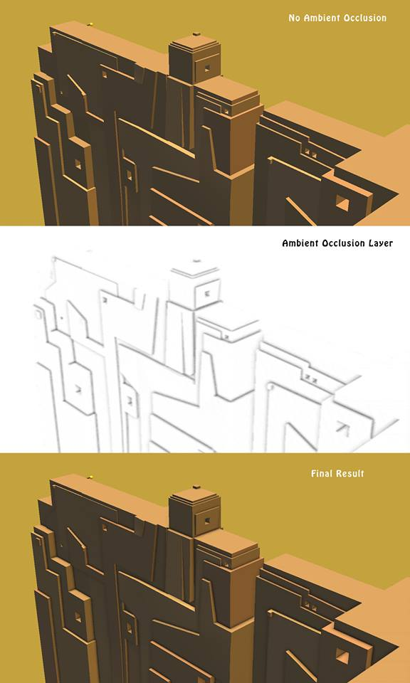 Show how 3D real time ambient occlusion works